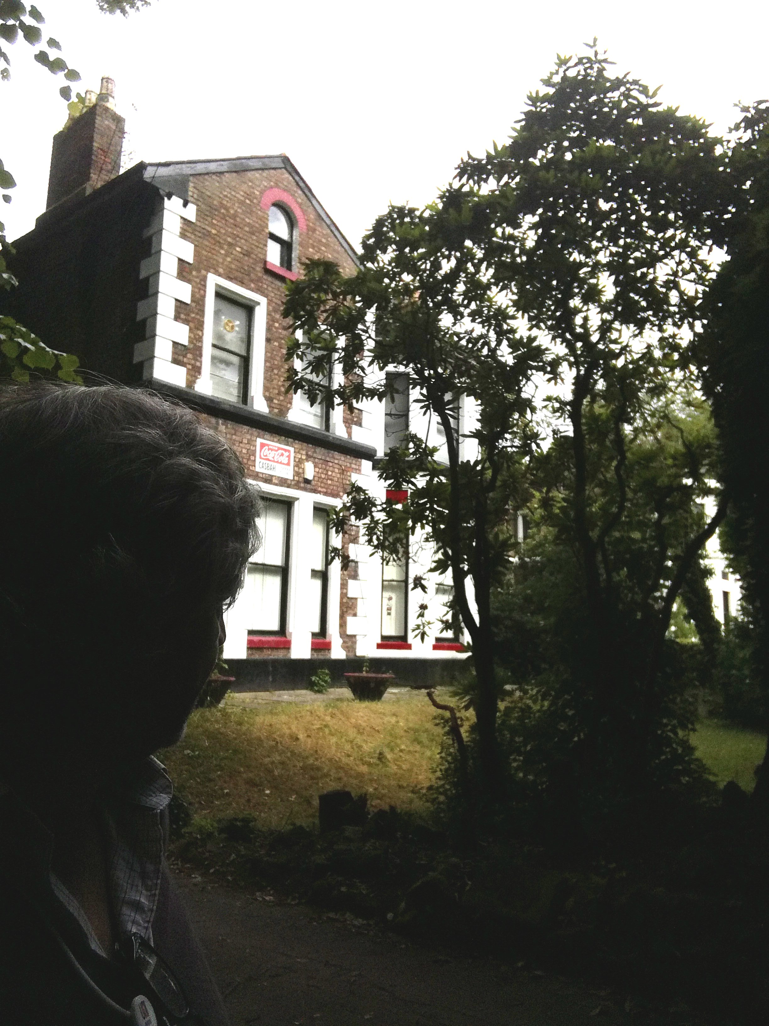 Casbah front of the house. The Coffee Club was in the basement, and the entrance was at the back of the house.